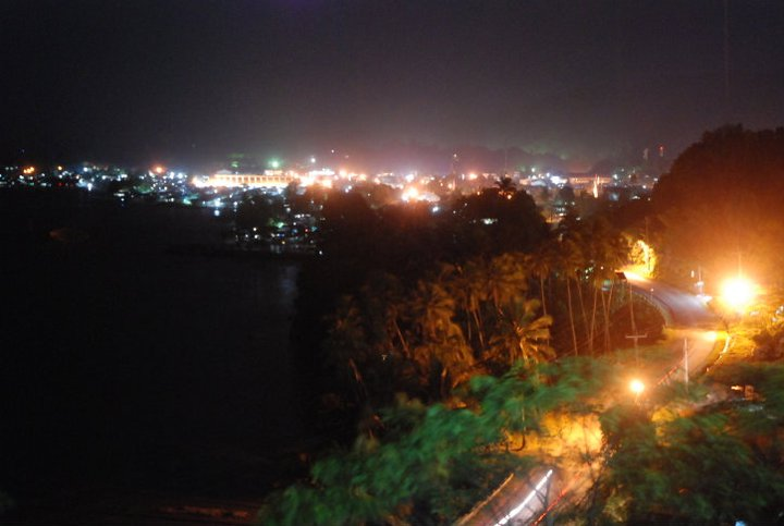 Ocean View Park Bislig City at Nighttime. I PERSONALLY took this photo in 2011 using my OWN camera. I am positive and confident that this image is NOT readily available on the internet before the upload date. Feel free to double check in the internet to verify my claim. Thank you.